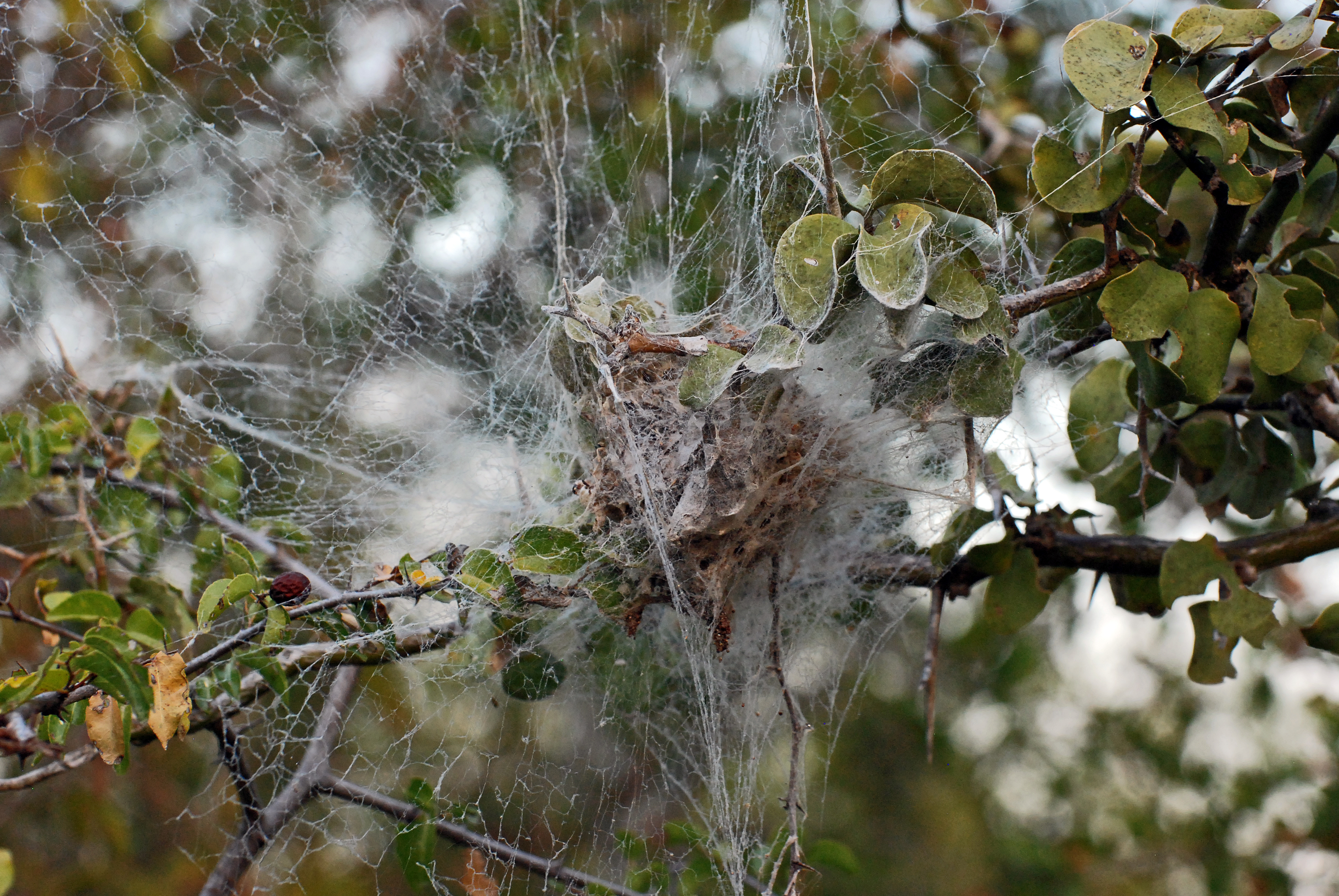 On the Afternoon Game Drive / Community Nesting Spider (Stegodyphus), commonly called social spiders, occur in Africa and South America. Most species are solitary except the African varieties, Stegodyphus domicola and Stegodyphus mimosarum